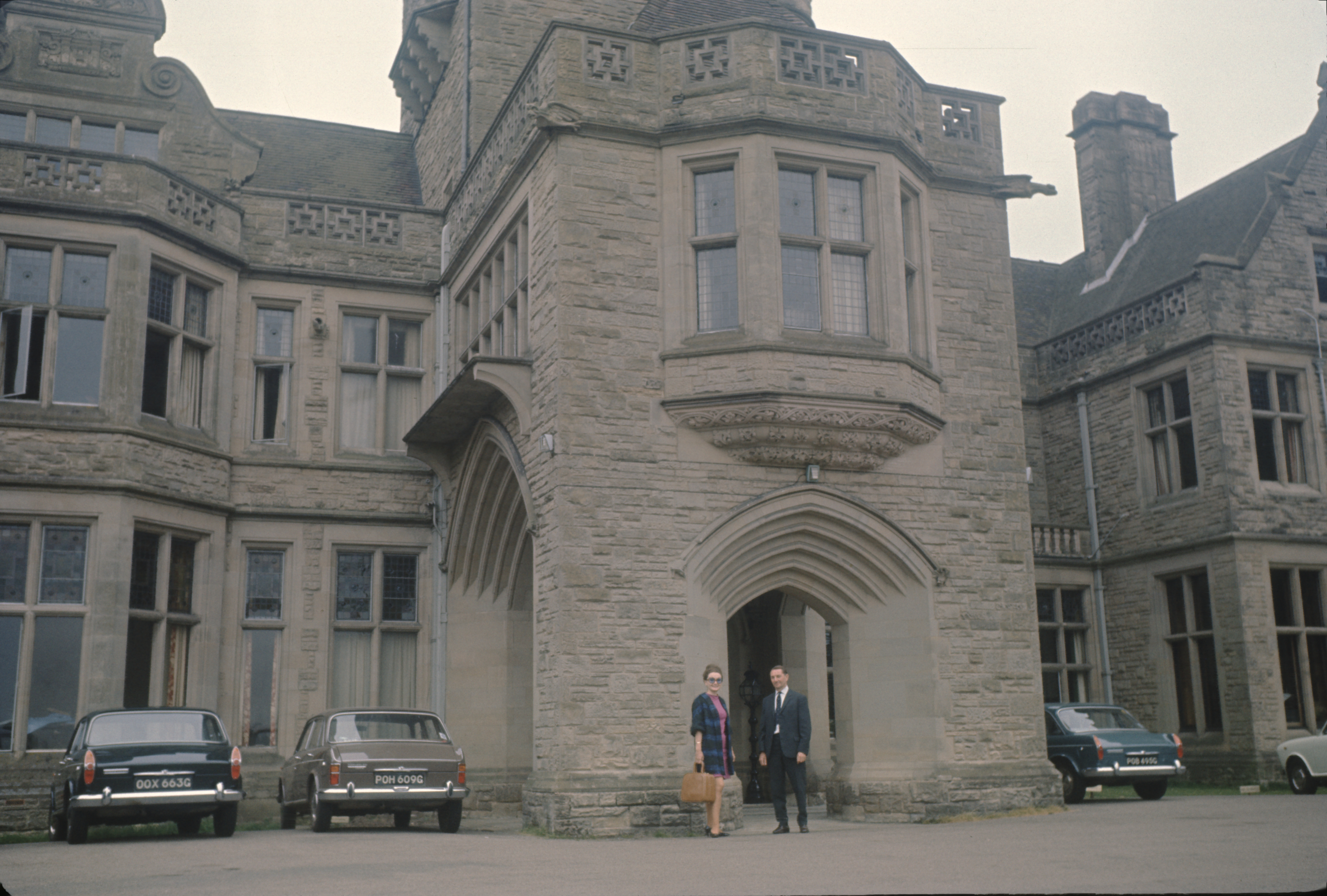 Photography by Victor Albert Grigas (1919-2017)